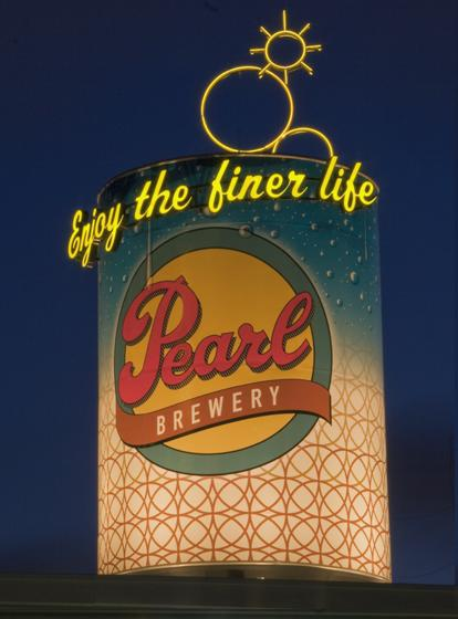 Pearl Brewery's new can at night. Image taken March 2008.